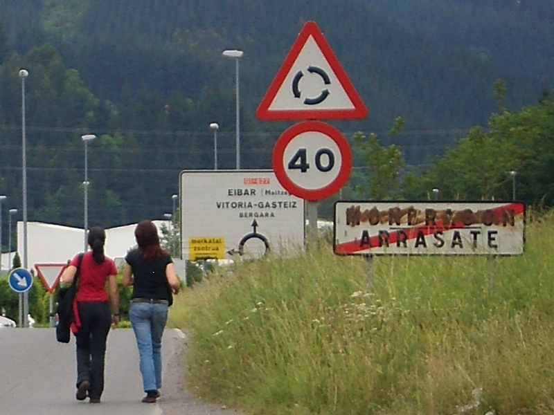 Road signs at the northern border of Arrasate (Mondragon), in the Basque Country